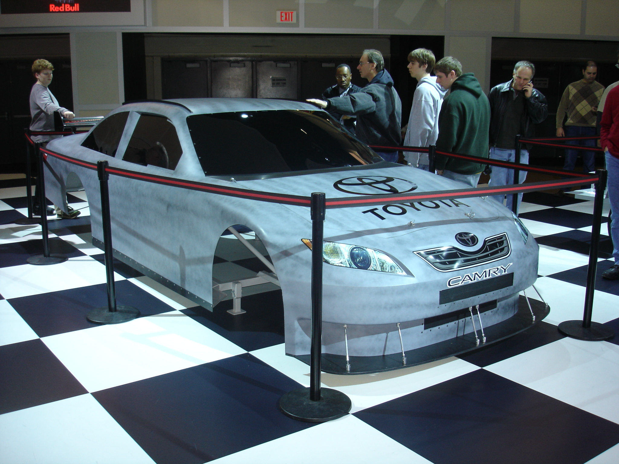 A Toyota Camry NASCAR shell.